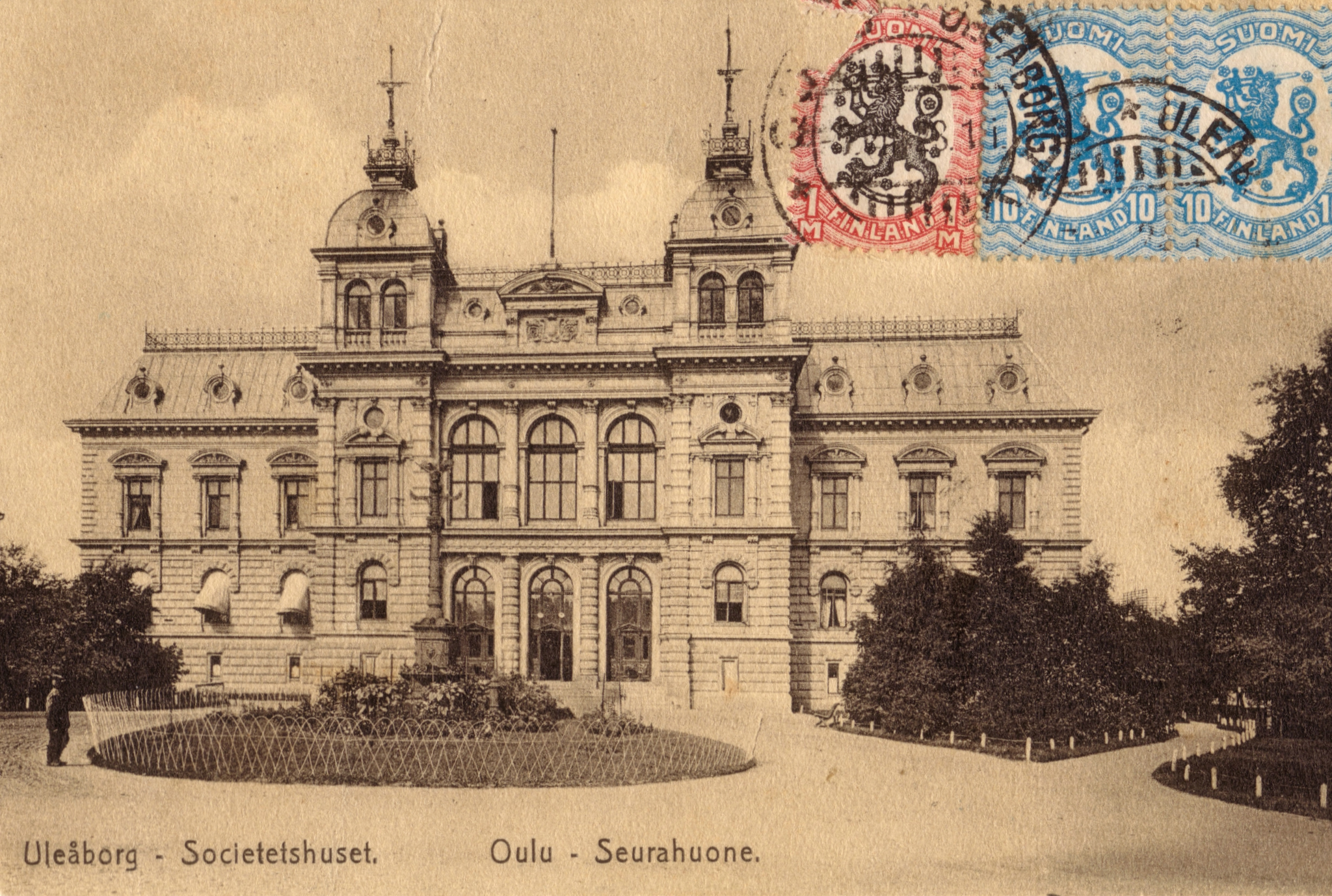 A postcard of Oulu City Hall (at the time it was a restaurant and asembly hall Seurahuone) as it was designed by swedish architect J. E. Stenberg. The building was completed in 1887.